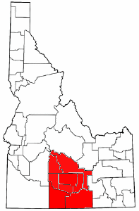 Modified from public domain map courtesy of The General Libraries, The University of Texas at Austin, modified to show counties, and further to show the Idaho Panhandle. See Wikipedia:U.S. county maps. The image was modified from :Image:Map_of_Idaho_highlighting_Twin_Falls_County.png by User:Faustus37. See that image for more © release information.